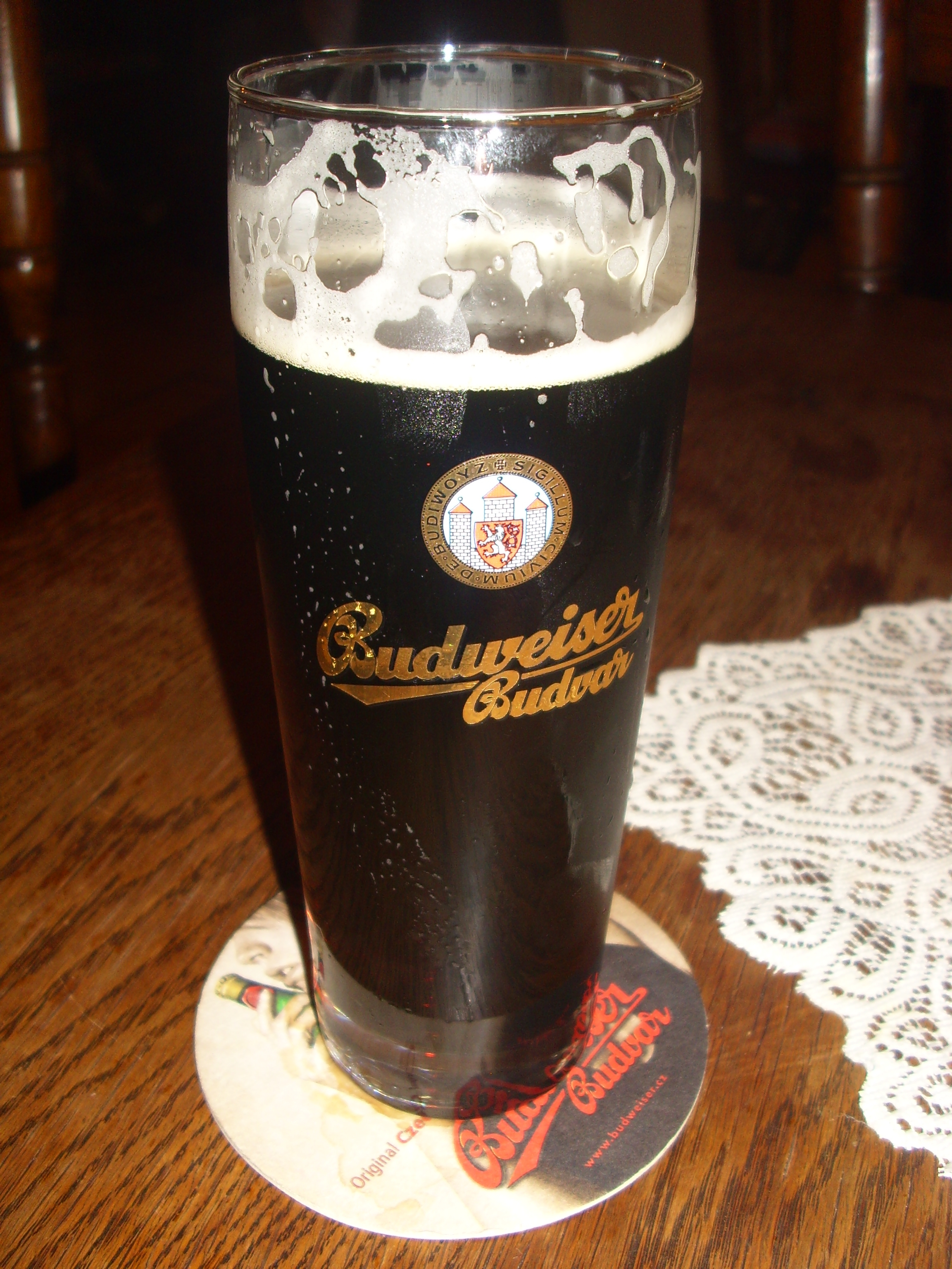 Czech dark beer: Budweiser Budvar